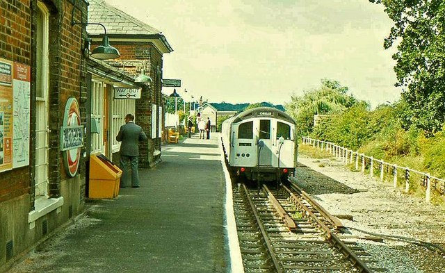 Ongar railway station Original description: Ongar station (2) See TL5503 : Ongar station (1). The single platform at Ongar with a train awaiting departure for Epping.